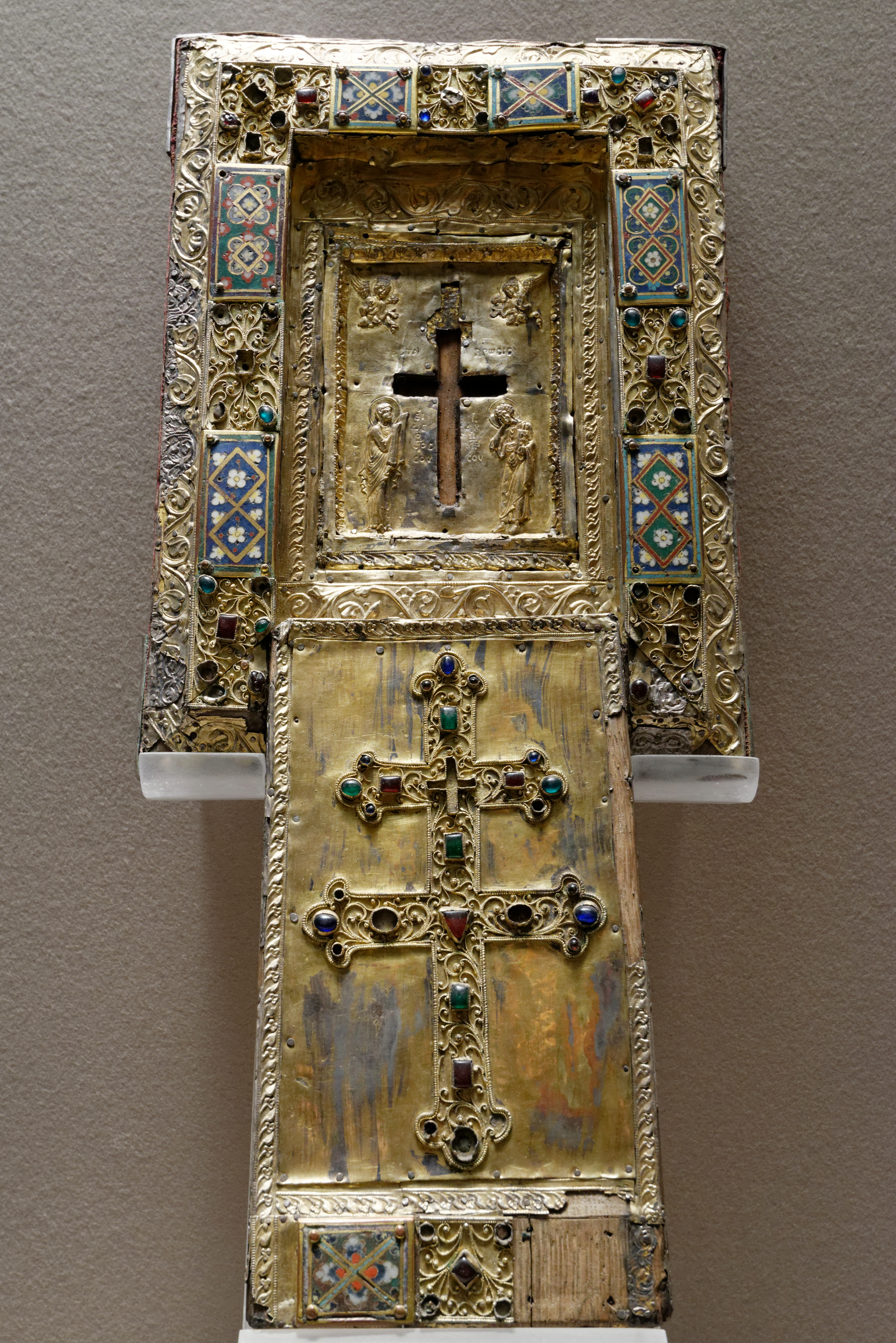 Reliquary case of the True Cross, with sliding lid. Reliquary case: Byzantium, 11th century; frame and lid: Meuse Valley, ca. 1160–1170.